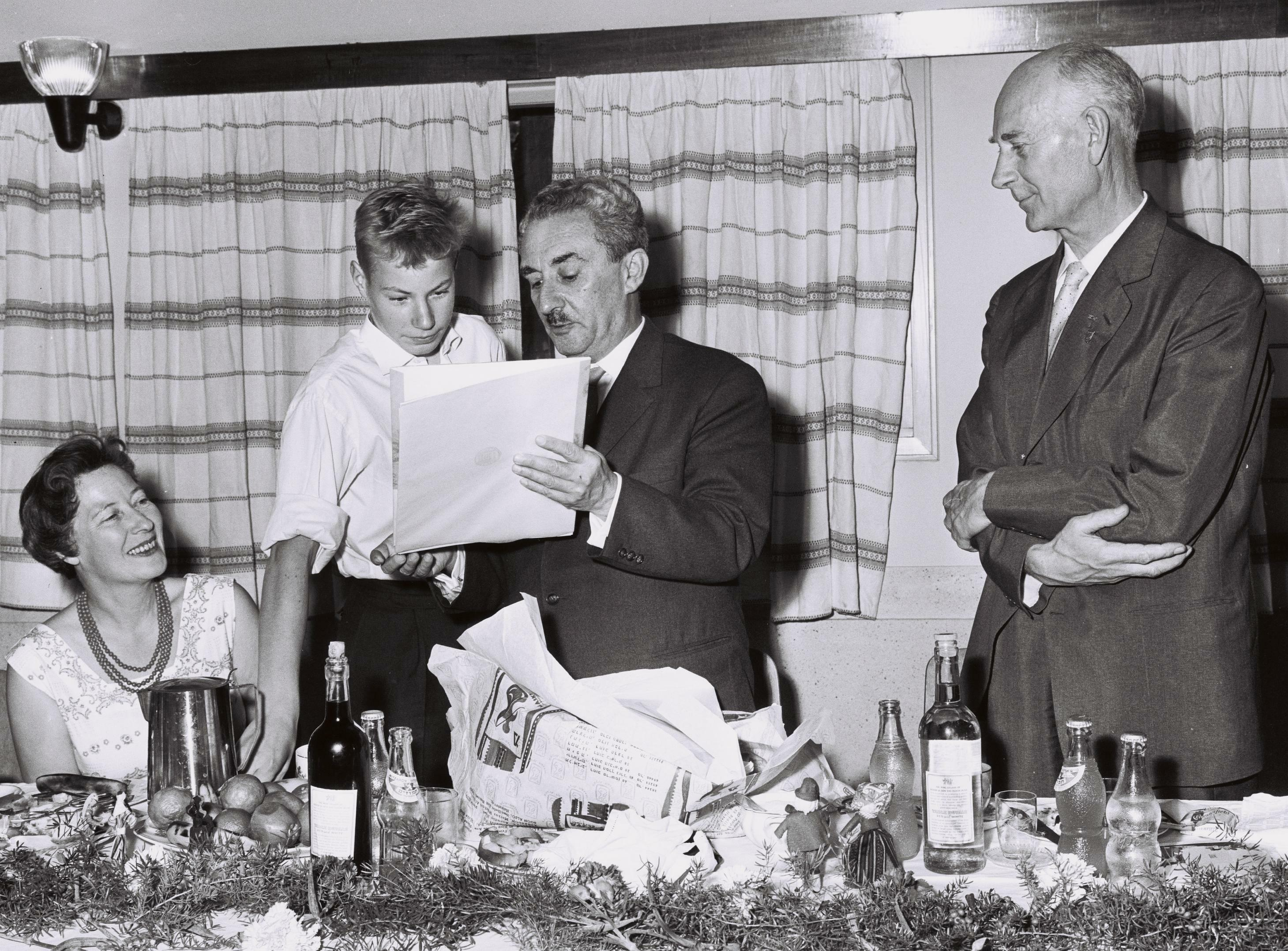 RUNE, SON OF EINAR GERHARDSEN, NORWAY'S P.M., RECEIVING REPRODUCTION OF A PAINTING FROM MOSHE SHARETT, IN THE PRESENCE OF HIS PARENTS